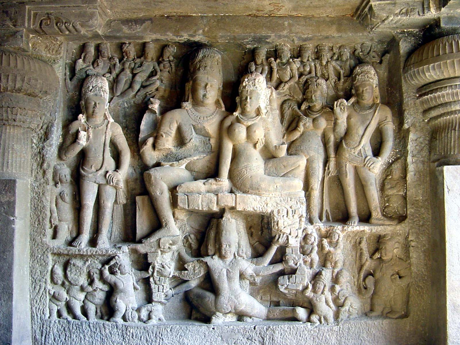 Ravana Shakes Mt. Kailasa. Cave 29, Ellora There is a similar scene in Cave 21. Cave 29 also dates, like Cave 21, to the late 6th century.